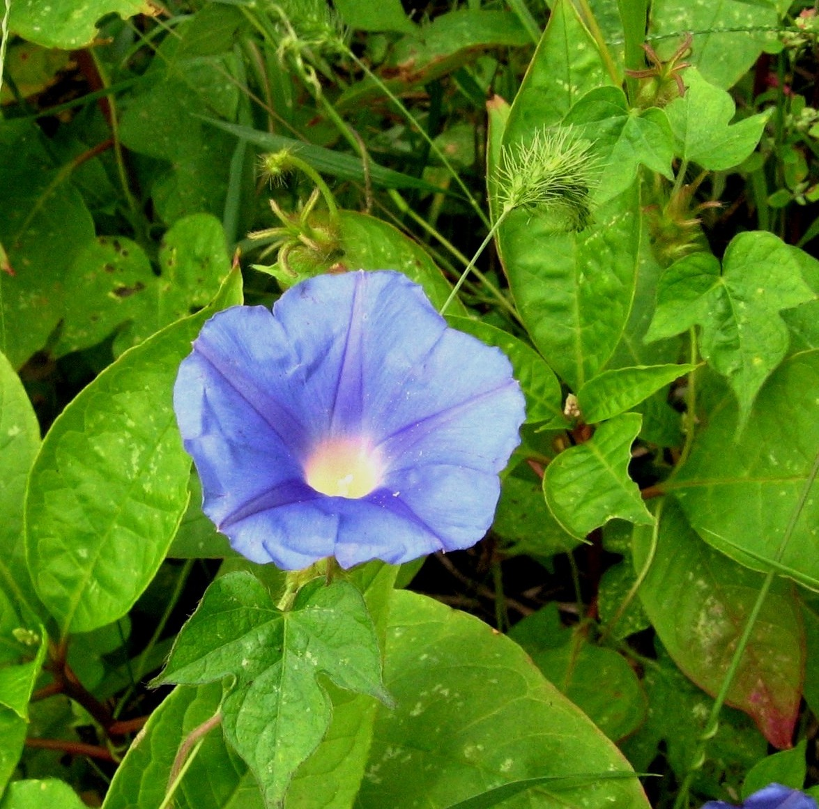 Ipomoea hederaceae